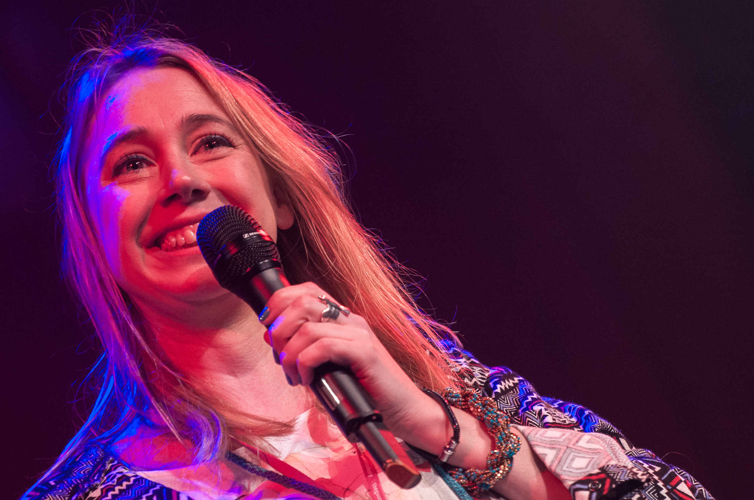 Tiff Stevenson performing at the Glastonbury Cabaret 2015